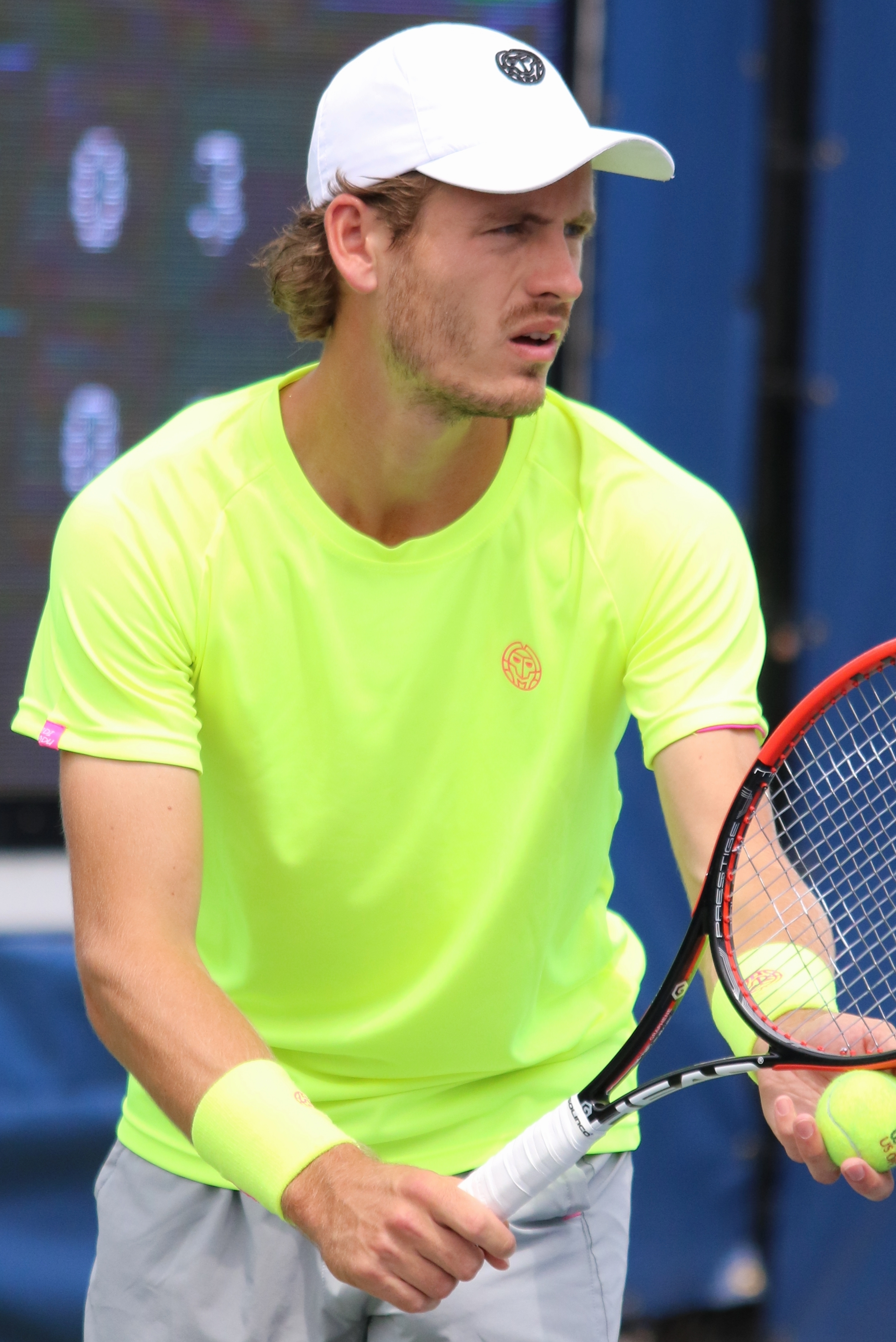 Koolhof US16 (17)